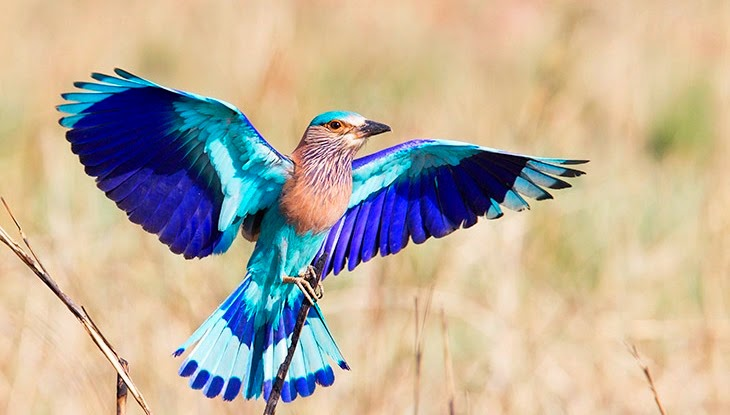 Pala Pitta